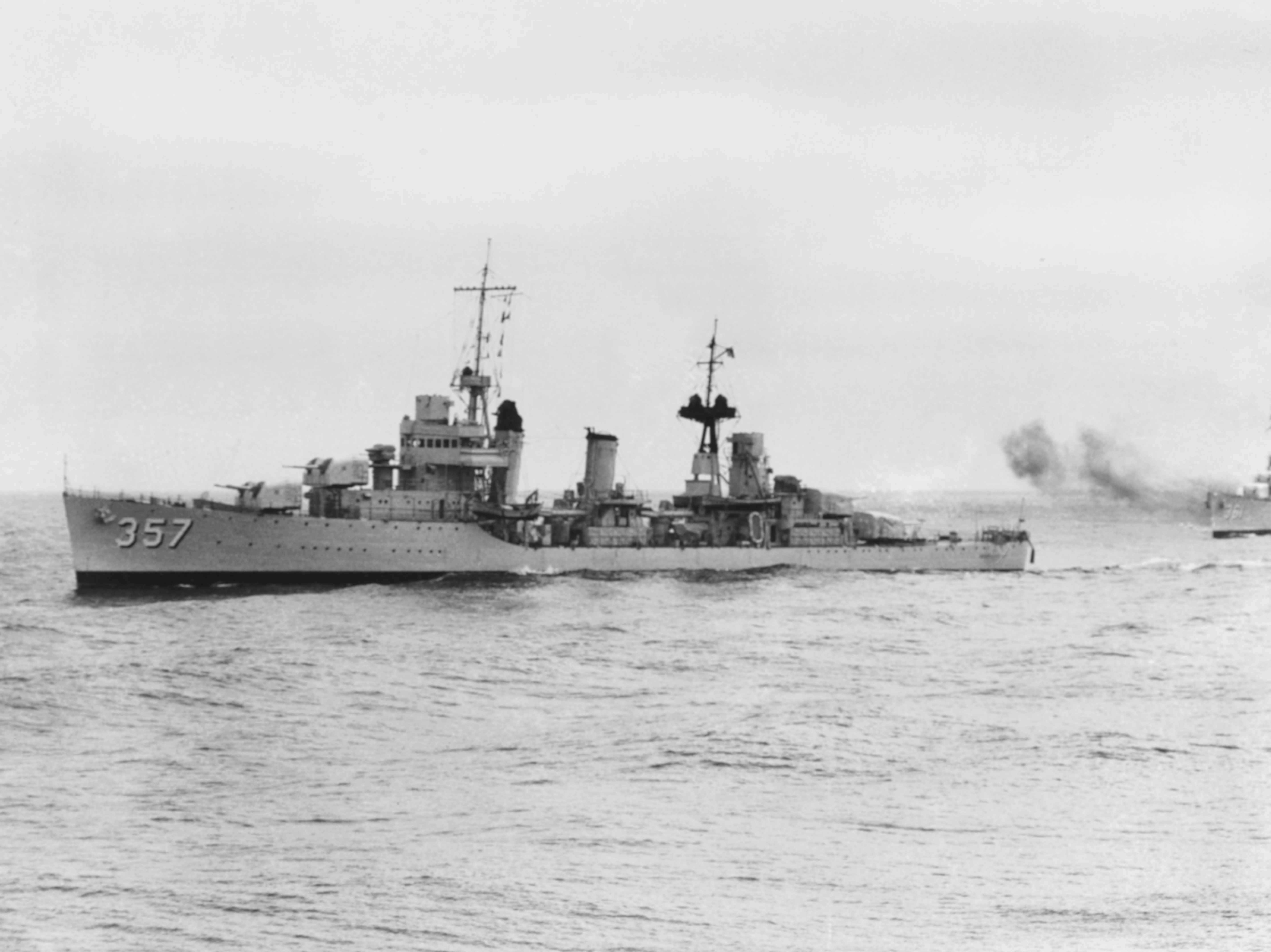 The U.S. Navy destroyer USS Selfridge (DD-357) leading USS Clark (DD-361) during exercises at sea, circa the later 1930s.